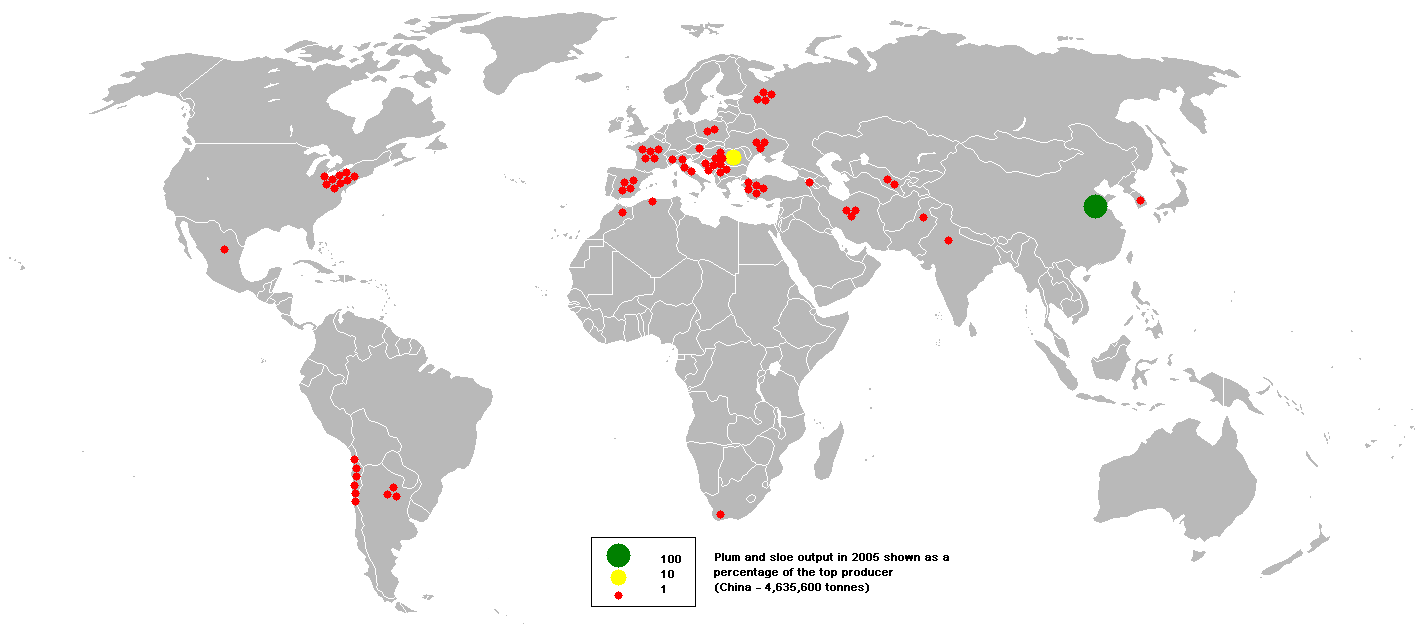 This bubble map shows the global distribution of plum and sloe output in 2005 as a percentage of the top producer (China - 4,635,600 tonnes). This map is consistent with incomplete set of data too as long as the top producer is known. It resolves the accessibility issues faced by colour-coded maps that may not be properly rendered in old computer screens. Data was extracted on 9th June 2007 from Based on :Image:BlankMap-World.png